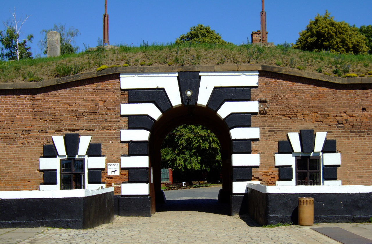 Gate of the Little Fort in Terezín Aufnahme: 1. Juli 2006 Url